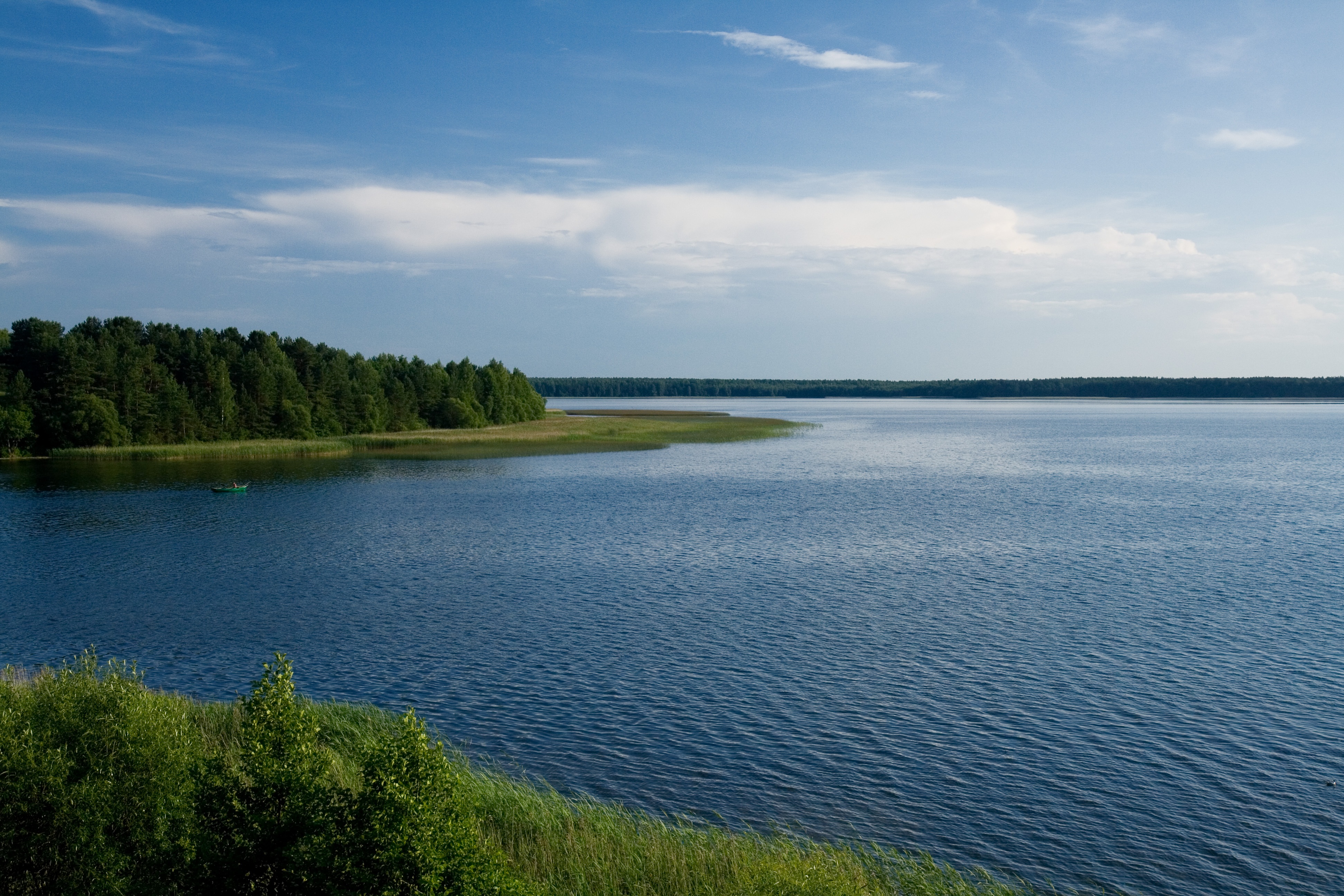 Miastra lake, Belarus.